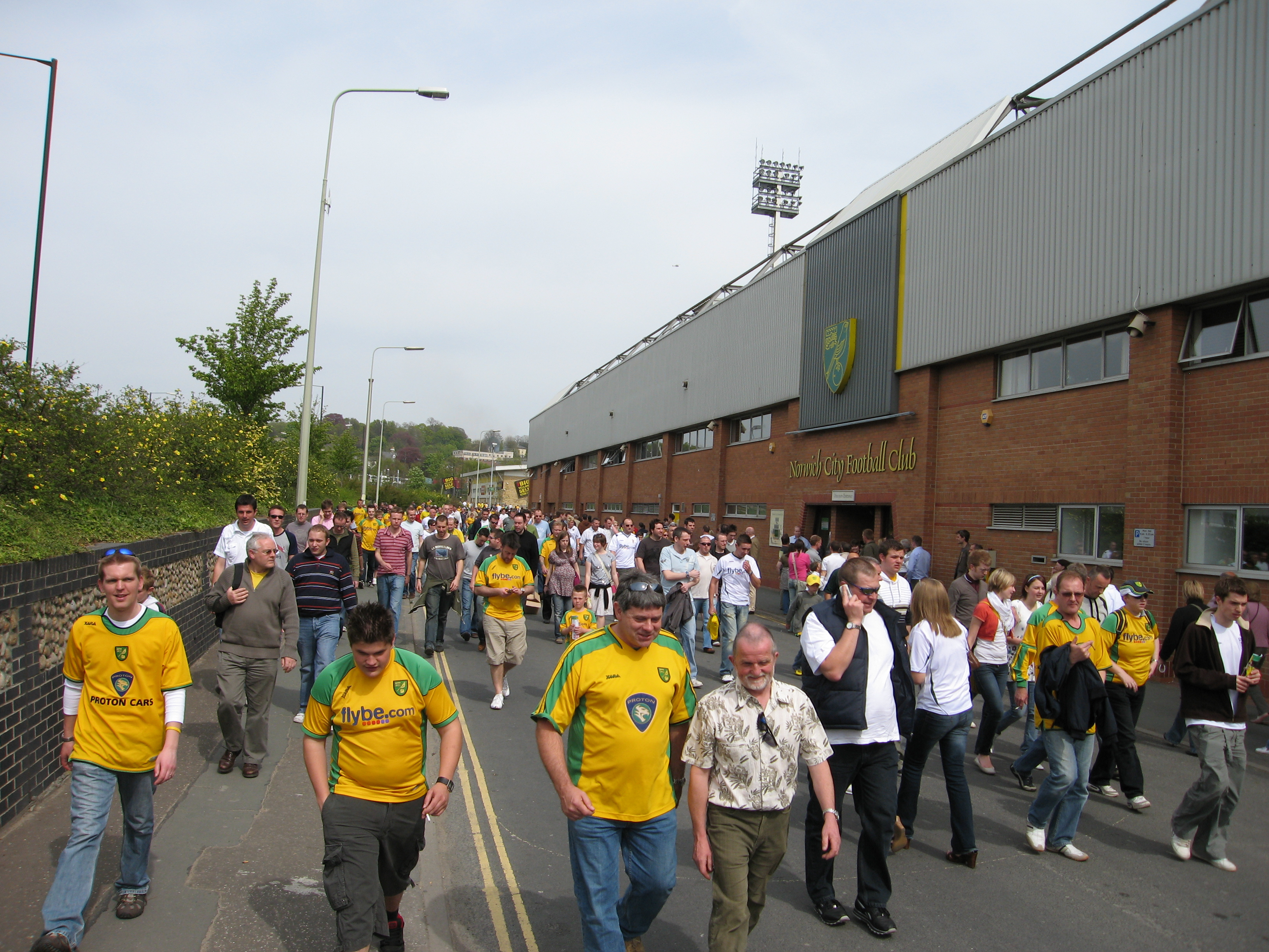 Photograph taken by MLS11 on 22 April 2007 Mls11 23:03, 23 April 2007 (UTC)